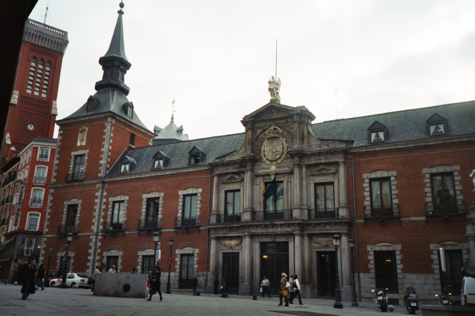 Description: View of the Palacio de Santa Cruz in Madrid. Source: self-made, I release it into the public domain.